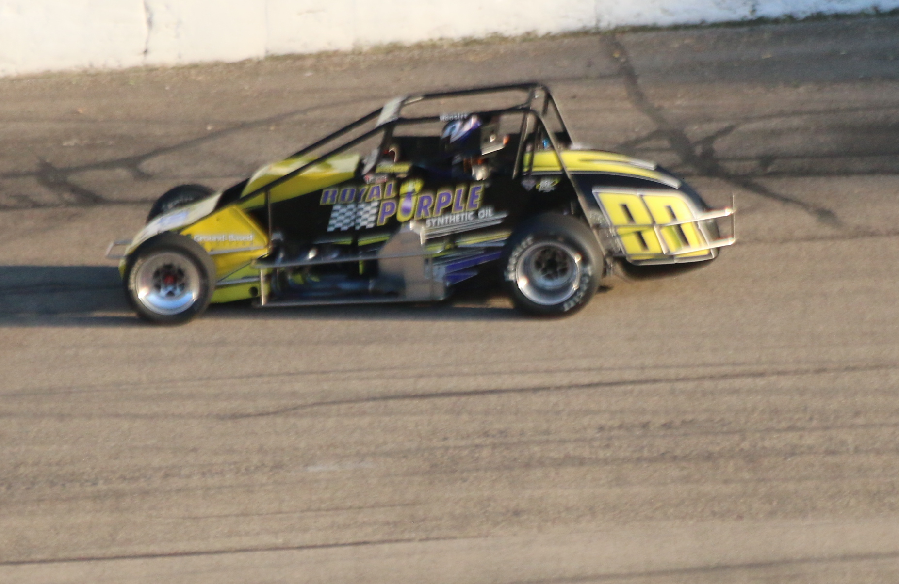 The USAC Silver Crown car of Toni Breitinger at Madison International Speedway.